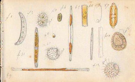 original drawing of Edouard Gourdan de Fromentel (1866) Museum d'histoire naturelle de Gray collection